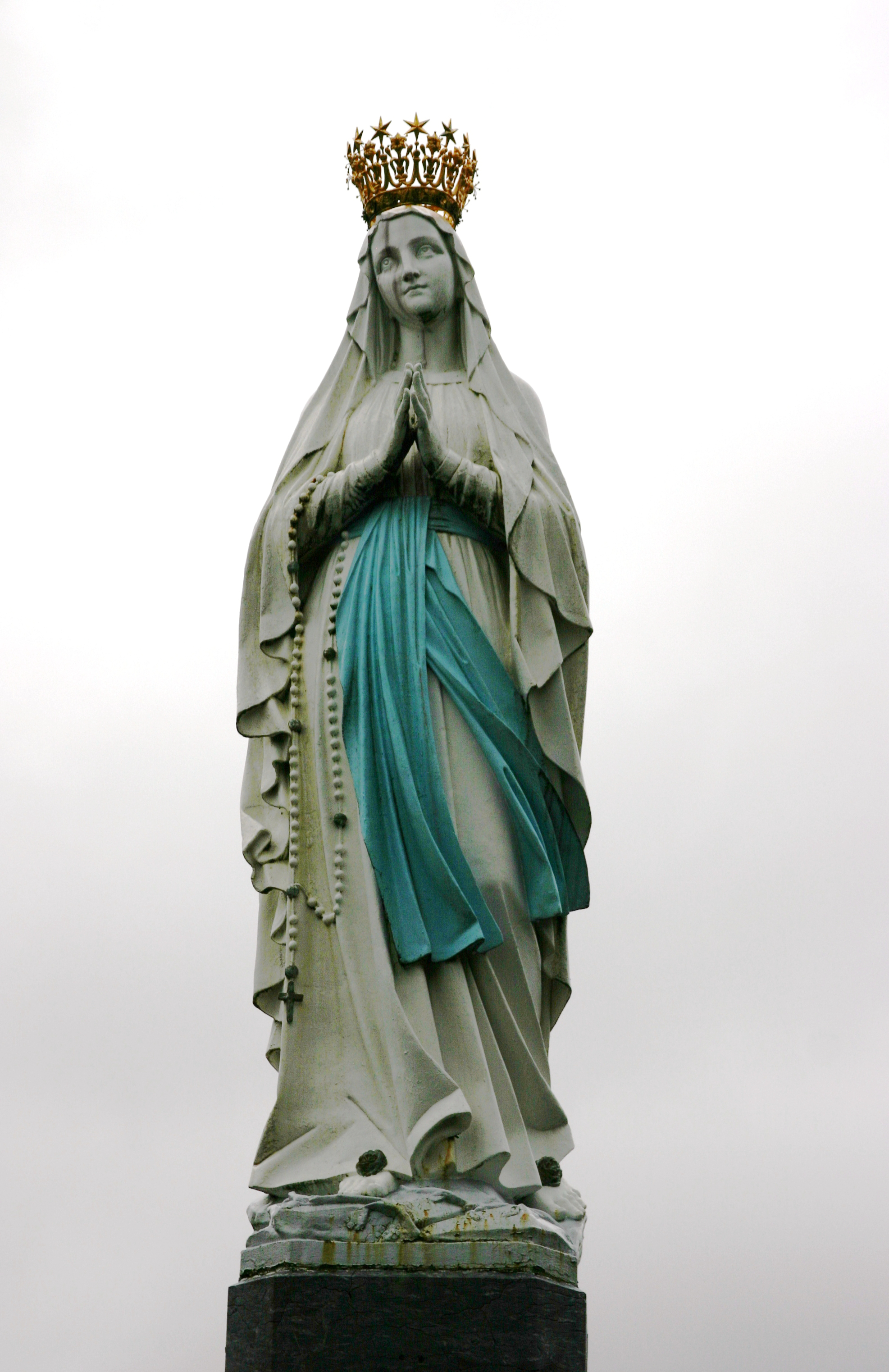 Our Lady of Lourdes in Rosary Square - Lourdes